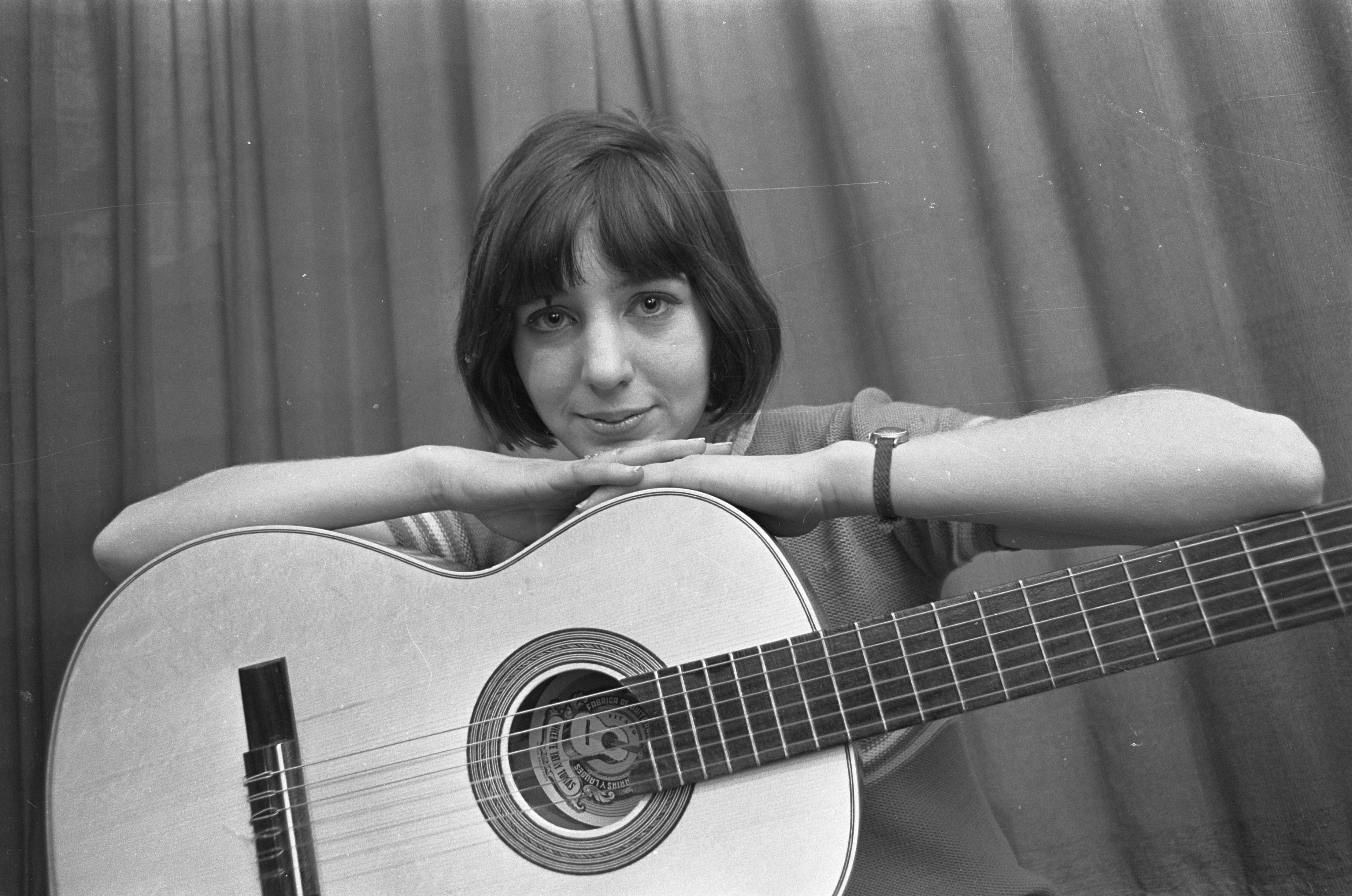 Dutch singer Elly Nieman with guitar, 9 Febr. 1967